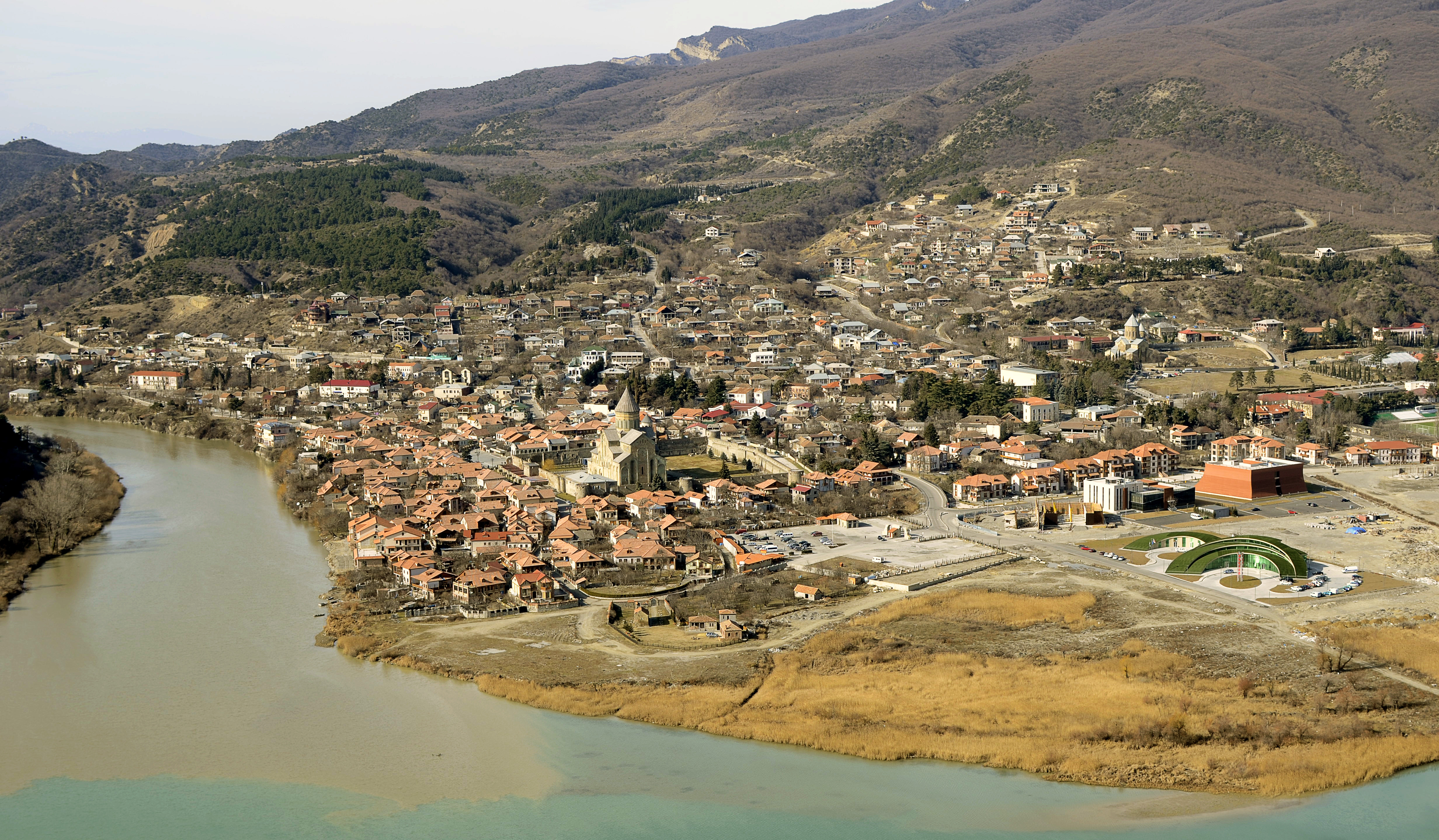 The Mtskheta panorama with the Svetitskhoveli cathedral in January 2013